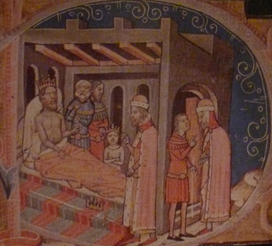 Andrew I of Hungary